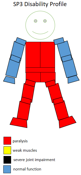 Shows F3 SP3 disability sports profile. Created using information from